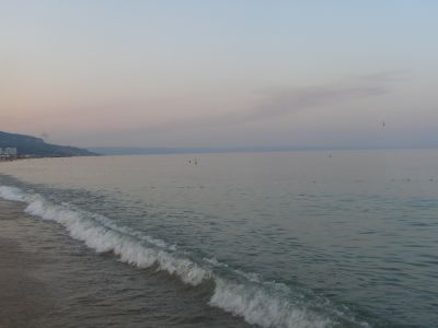 The Black Sea as seen from Golden Sands, Bulgaria